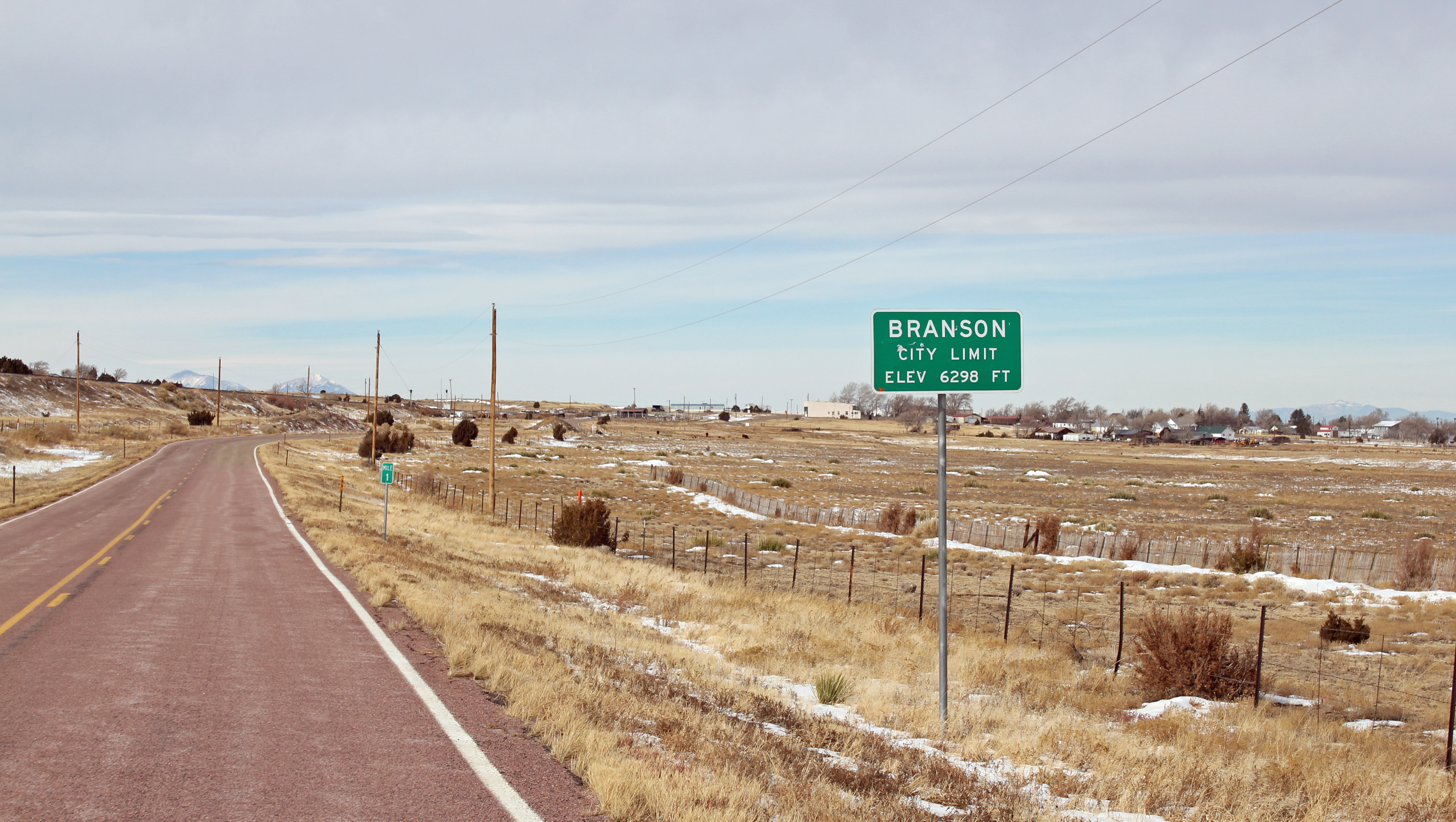 The city limit sign for Branson, Colorado. The town is visible in the background. The road is Colorado State Highway 389. Branson is located in Las Animas County, Colorado.